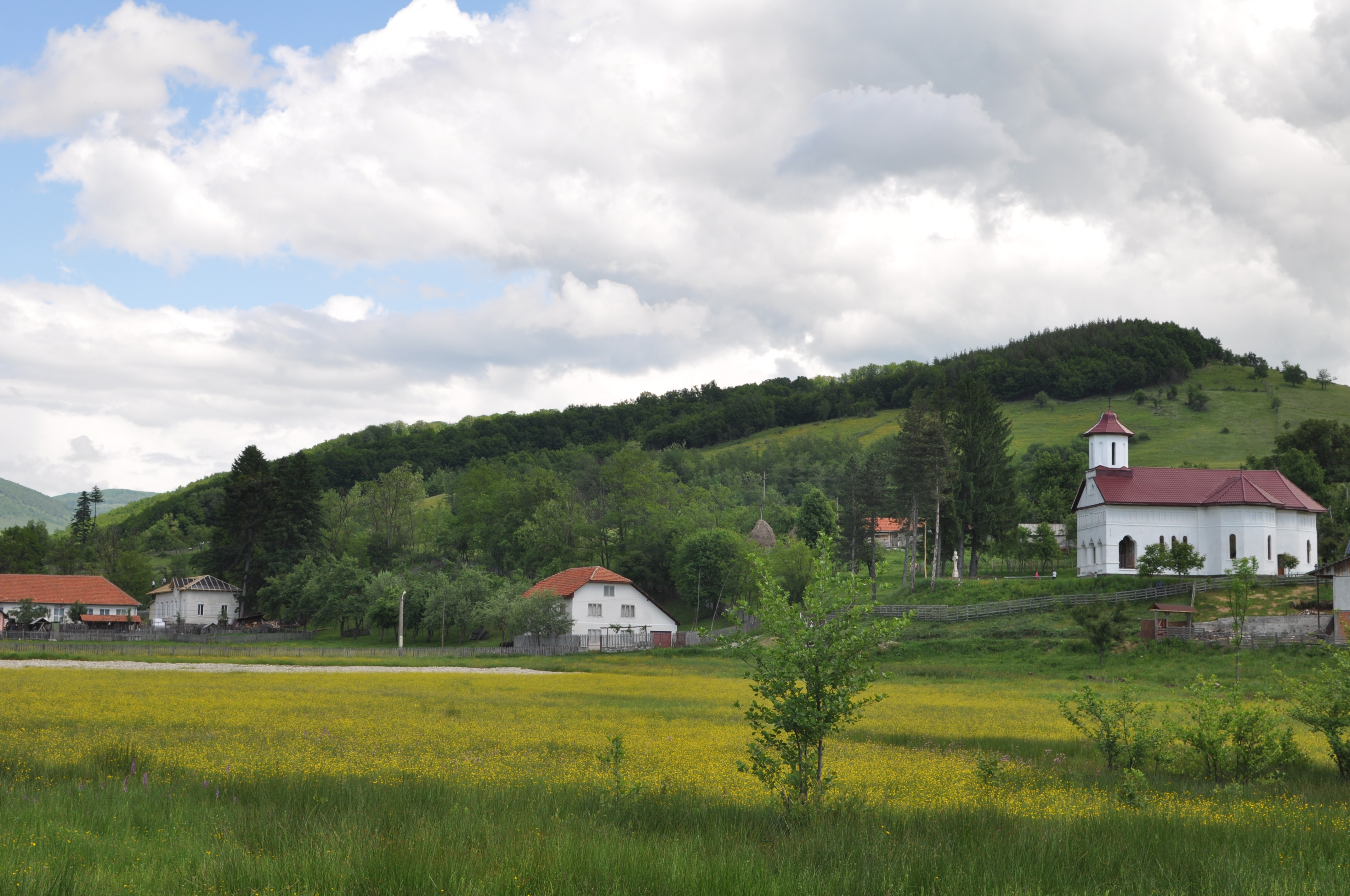 Seliștea, Mehedinți County, Romania